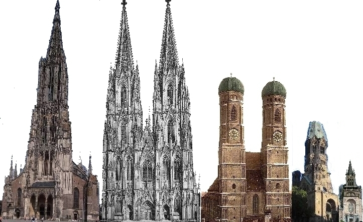 Comparison between five German, world-wide well-known cathedrals in their heights. From the left to the right side: Ulmer Münster, Kölner Dom, Frauenkirche (München), Kaiser-Wilhelm-Gedächtniskirche Berlin, Aachener Dom